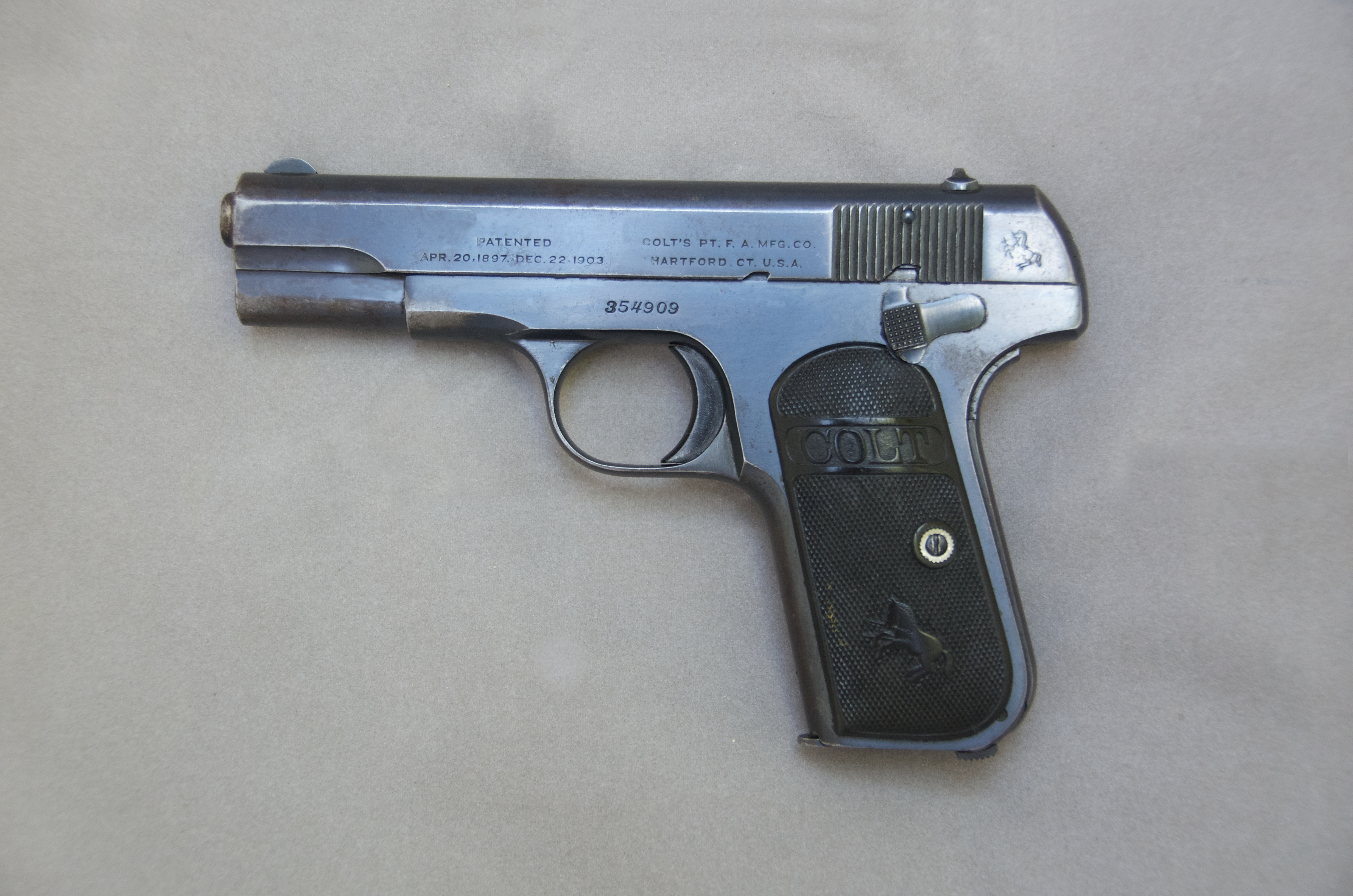 Colt 1903 Model M .32 ACP S/n 354909 left side. Made 1903-1945. Located Rock Island, Illinois, 2017. See separate file for other side.